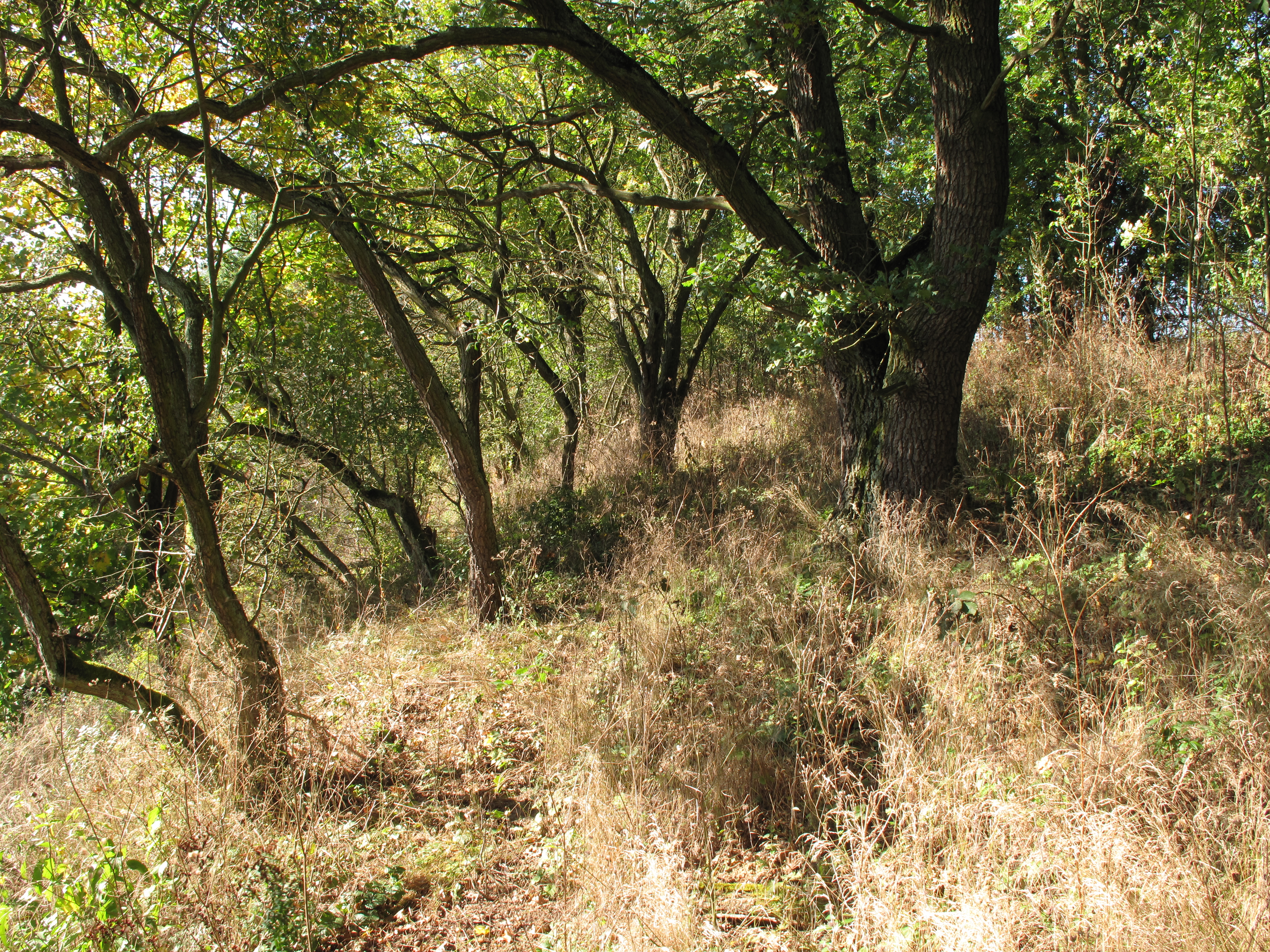 Natural monument PP Stráně Hlubockého dolu, Mělník District, Czech Republic. Project: Chráněná území.